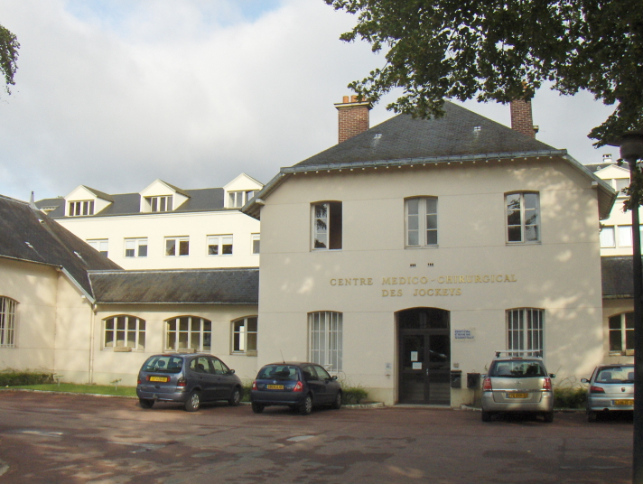 Chantilly private Hospital